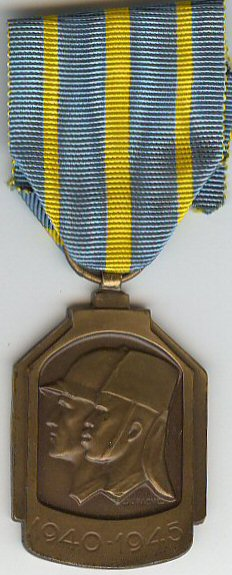 1940-45 African War Medal (Belgium)